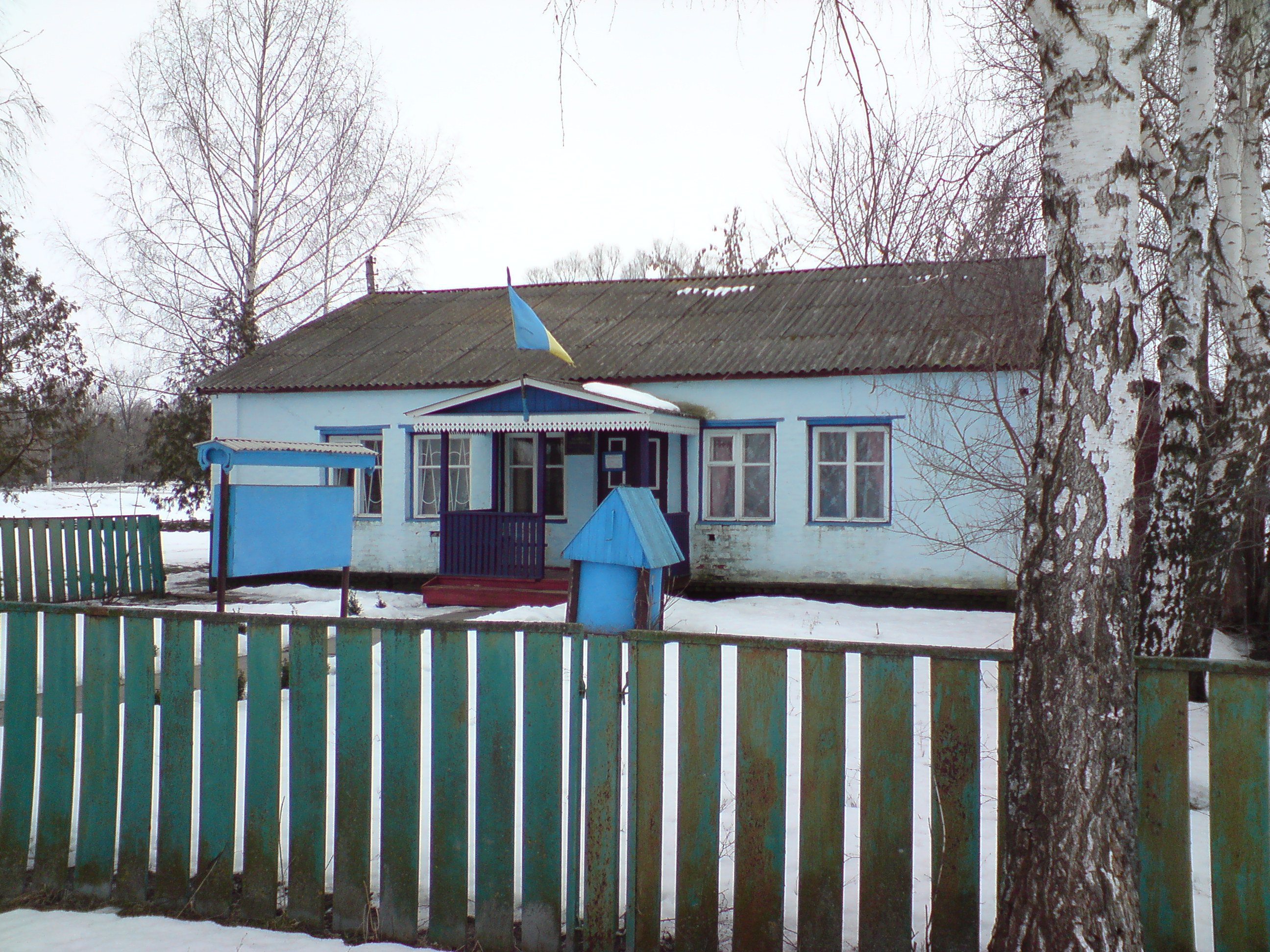 PeskiSilrada